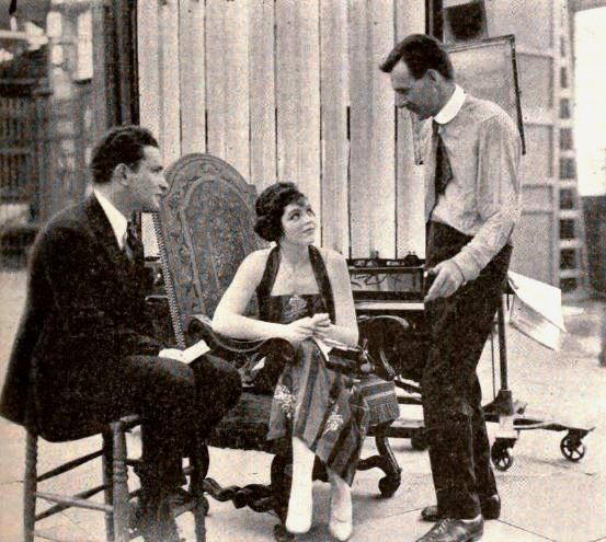 Film producer Myron Selznick and actress Elaine Hammerstein listening to stories being told by director Alan Crosland, on page 85 of the December 13, 1919 Exhibitors Herald.